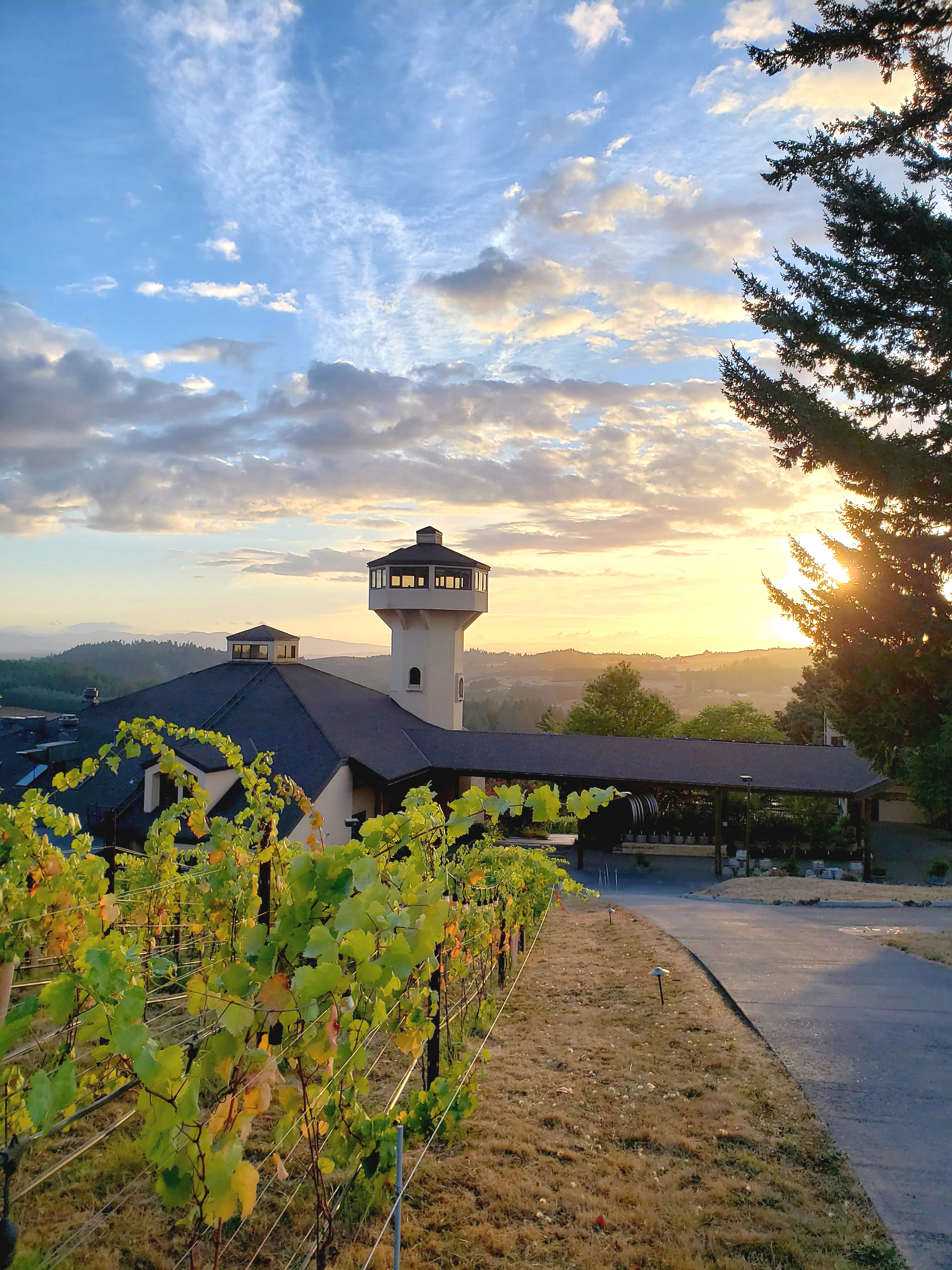 View of the Estate Tasting Room at sunset from upper parking lot.